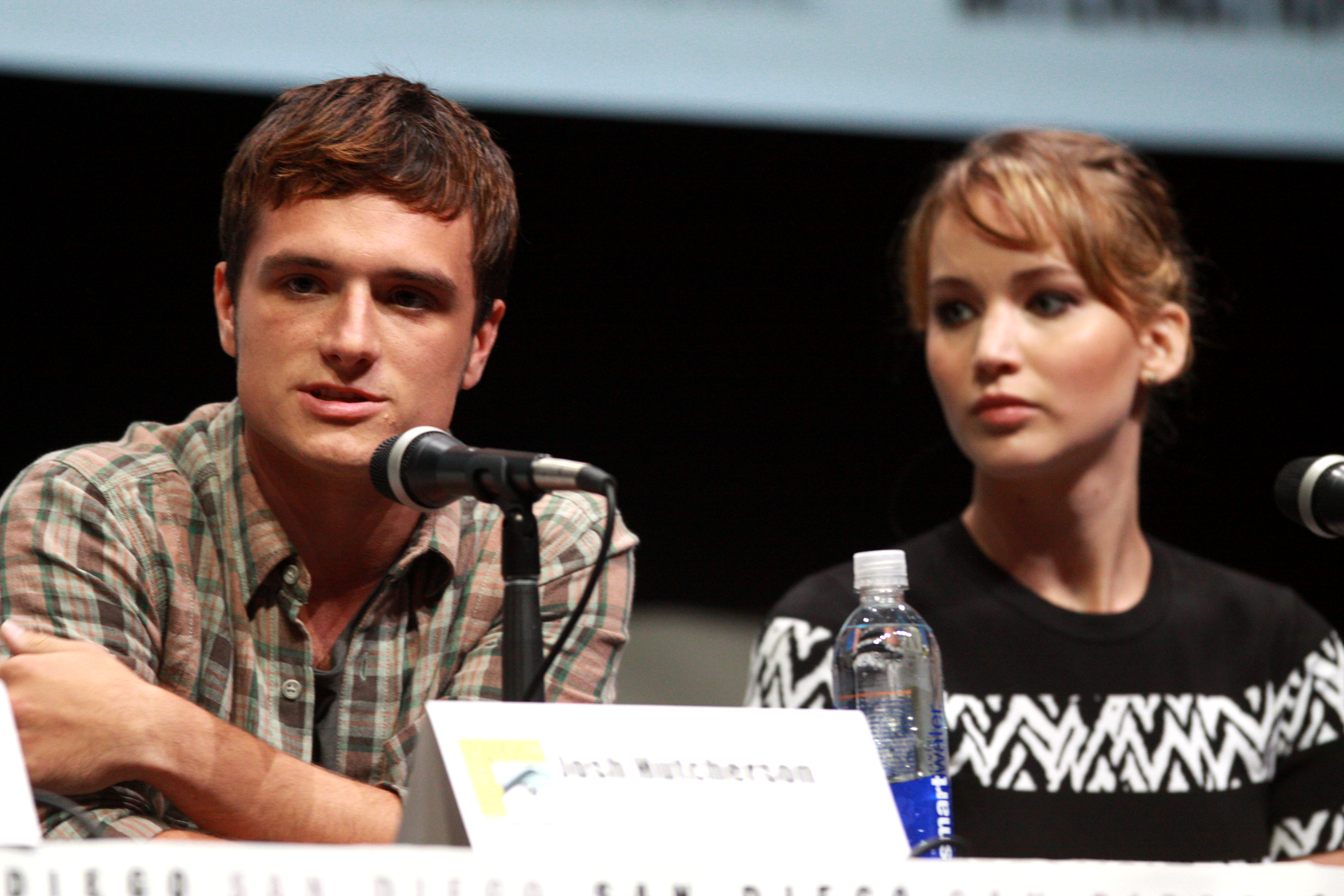 Josh Hutcherson and Jennifer Lawrence speaking at the 2013 San Diego Comic Con International, for "The Hunger Games: Catching Fire", at the San Diego Convention Center in San Diego, California.